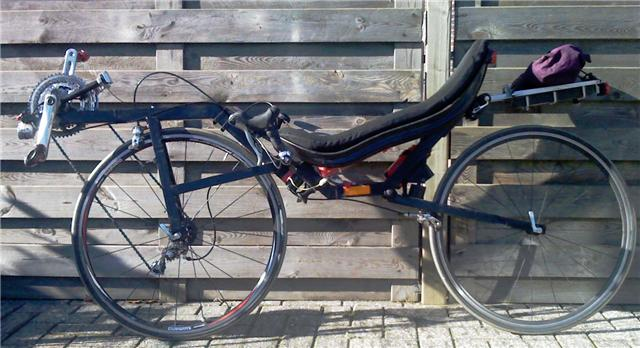 Flevobike recumbent bicylce. The bicycle was made by Flevobike, Dronten, The Netherlands